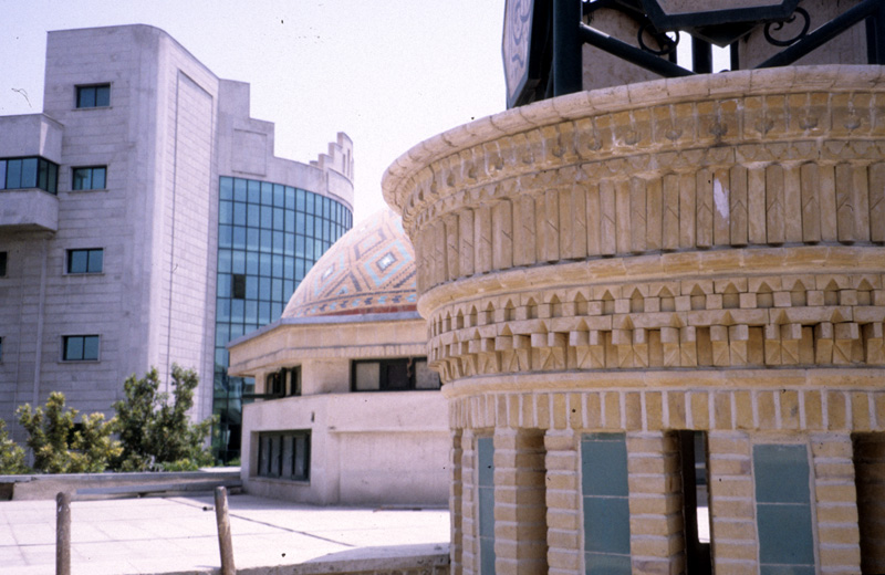 Shiriati Hospital mosque in foreground. Tehran University of Medical Sciences Research Center for Blood in background